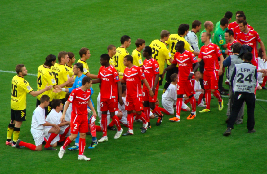 Valenciennes FC vs Borussia Dortmund (Stade du Hainaut, first match)